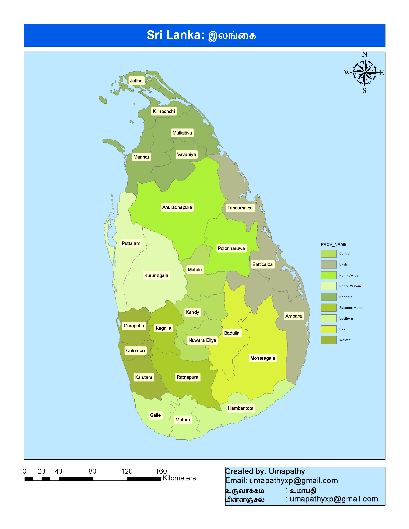 Sri Lanka District Map